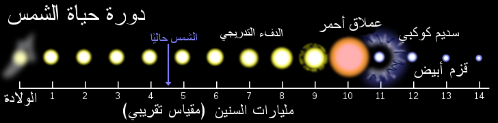 Life cycle of the Sun.